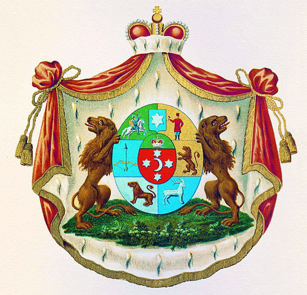 Yussupov family coat of arms, from The Russian Armorial of 1799